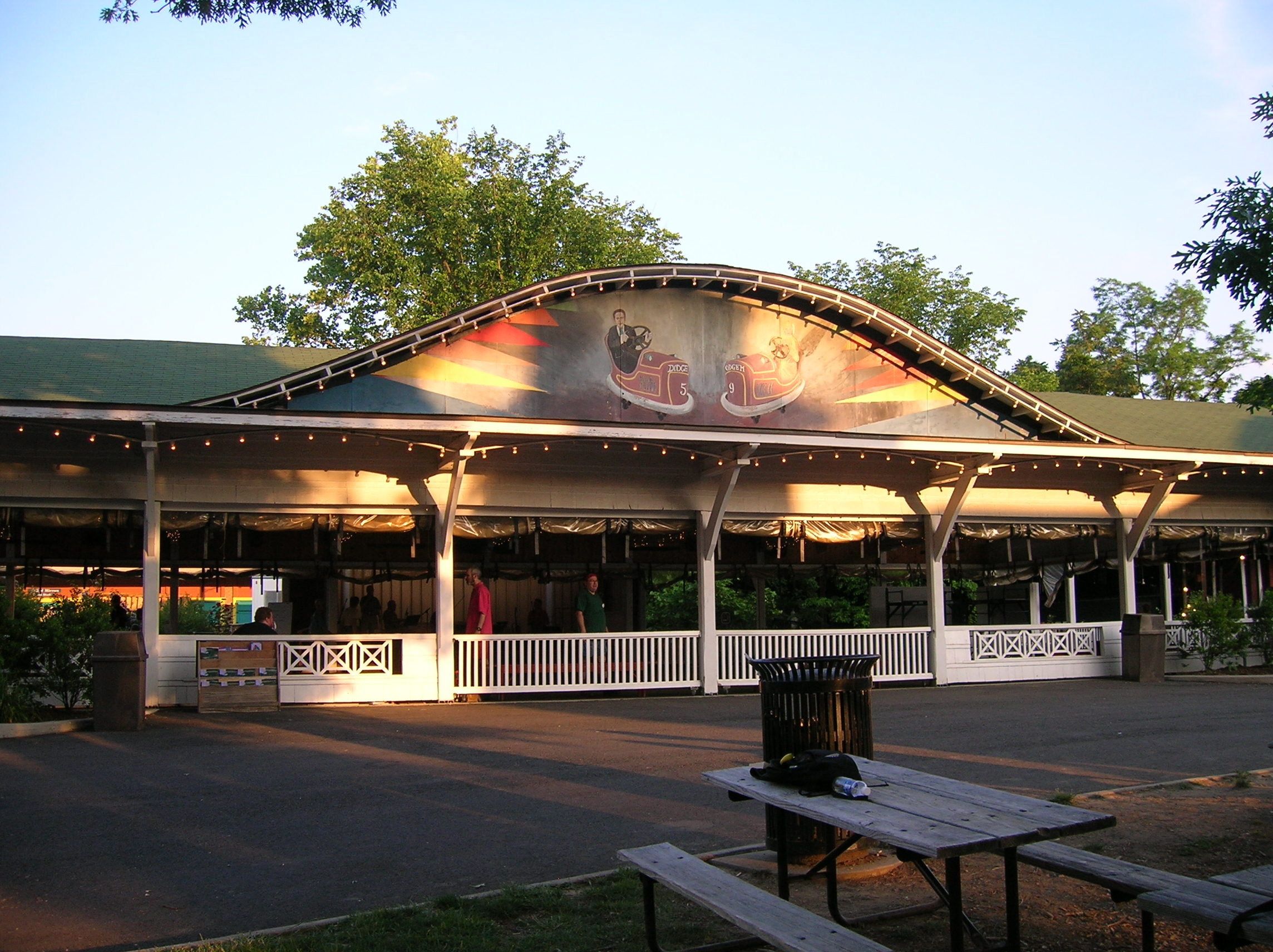 The Bumper Car Pavilion in Glen Echo Park, Glen Echo, Maryland, U.S.A. The Bumper Car Pavilion is the site of contra dancing, swing dancing, and salsa dancing. Photograph taken in 2006 by Kenneth Mayer. I am the author and I put this picture in the public domain.